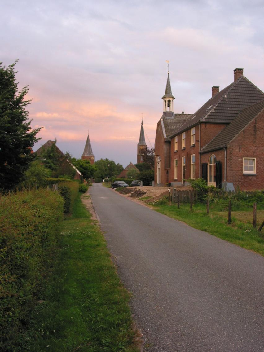 Three churches, Horssen, the Netherlands.